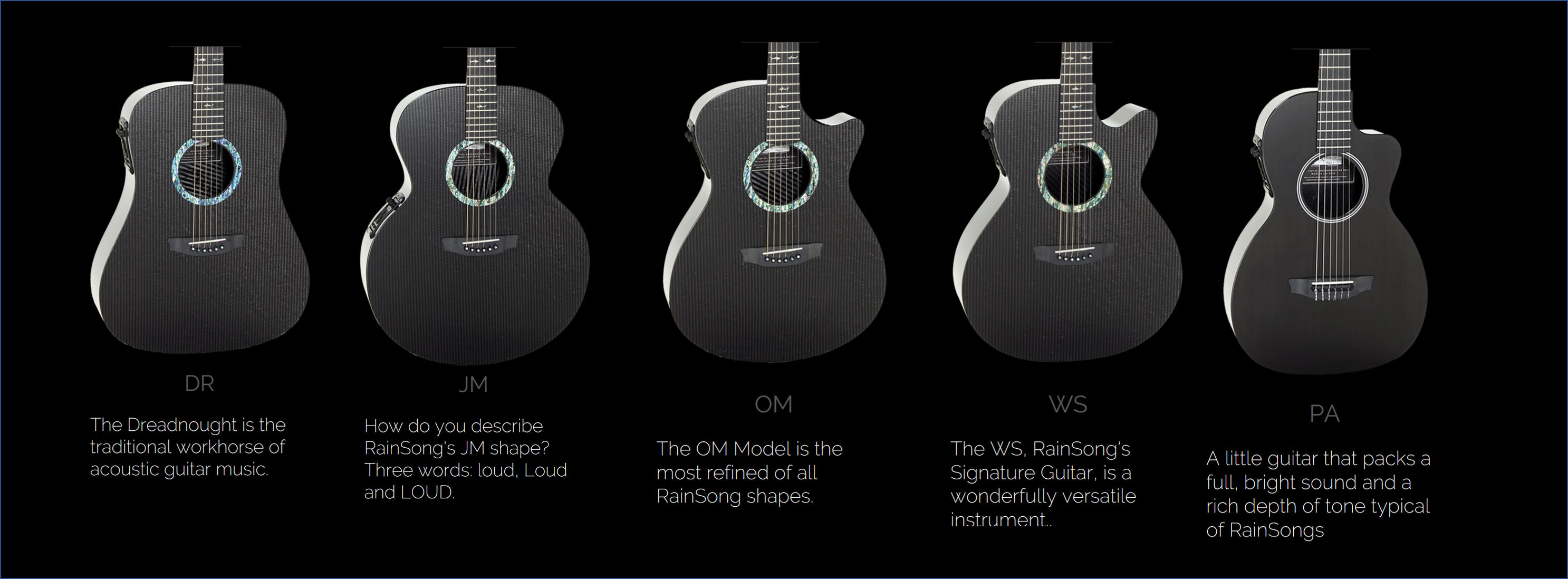 chart describing the different body styles that the company RainSong offers